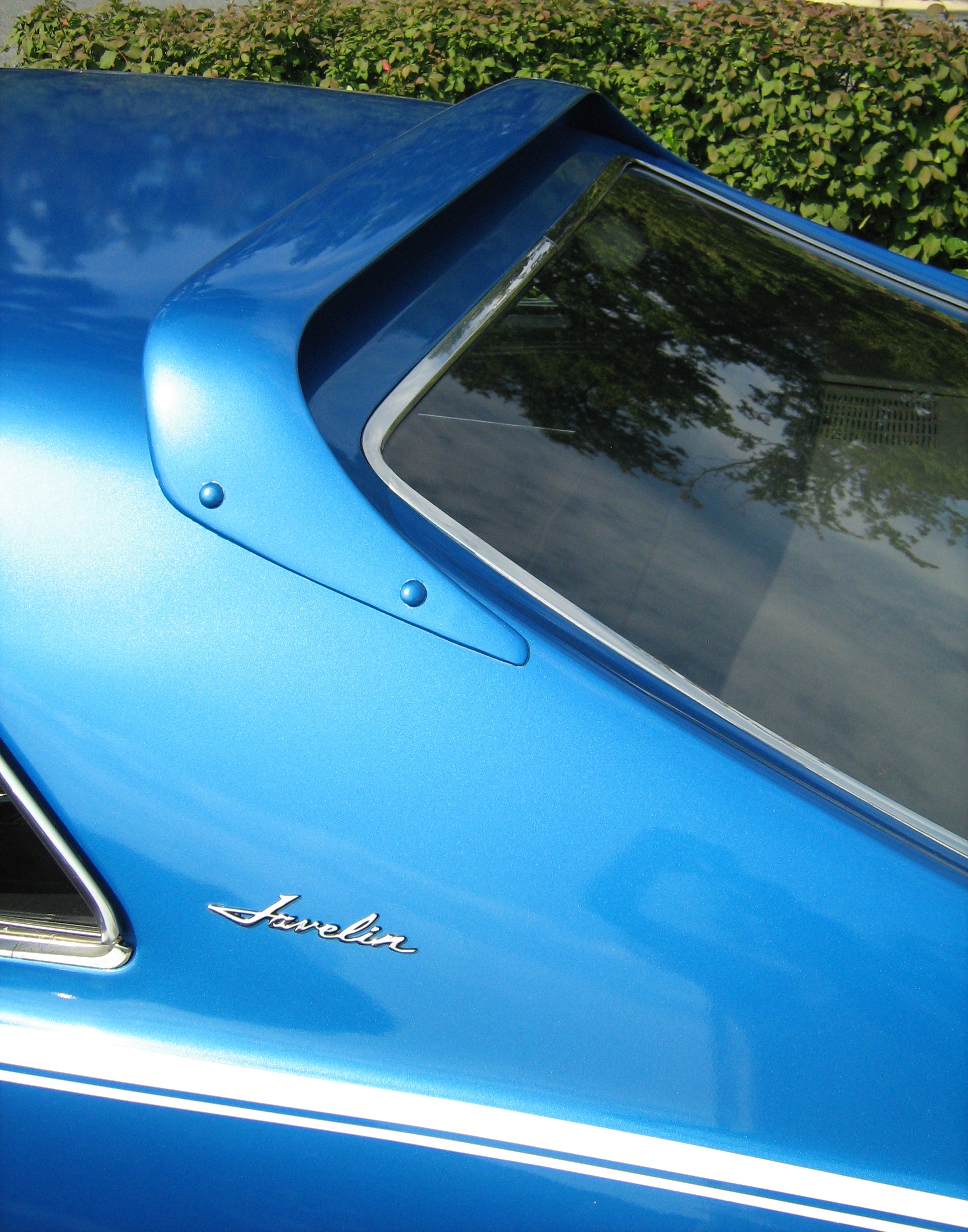 The "Craig Breedlove" roof mounted spoiler that was available on the 1969 AMC Javelin. A sporty "pony car" built by American Motors Corporation.